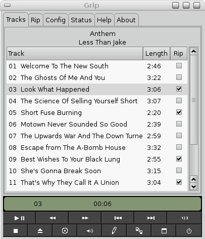 Screenshot of Grip 3.2, using Debian GNU/Linux, and GNOME 2.8's Amaranth theme.